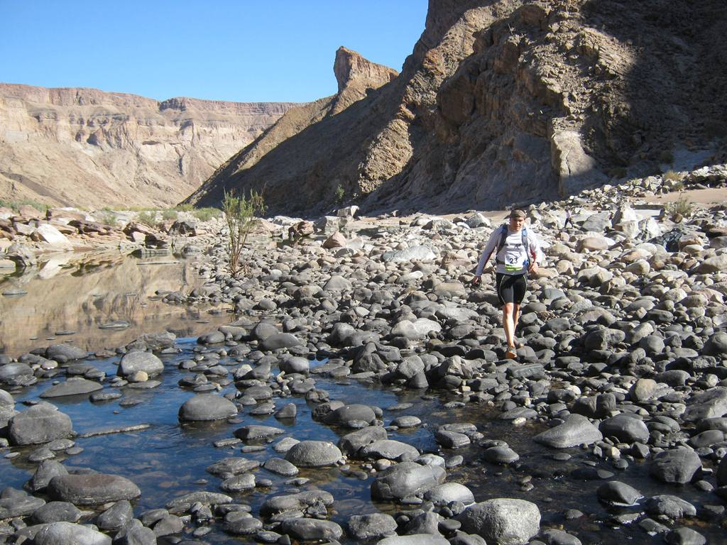 Athlete racing in the Fish River Canyon during the 2012 event